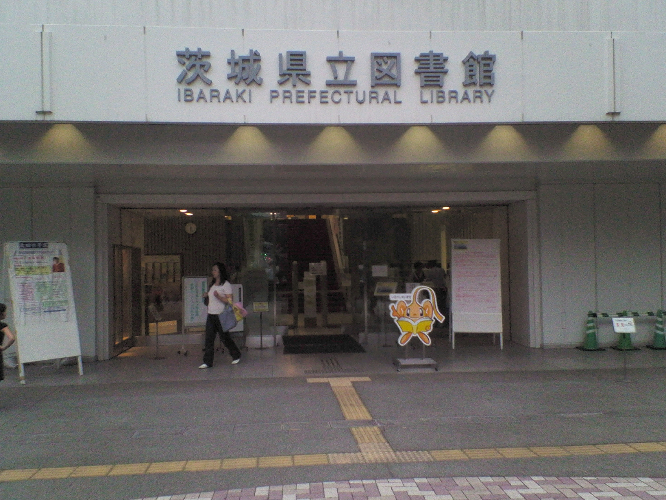 the Front of Ibaraki Prefectural Library